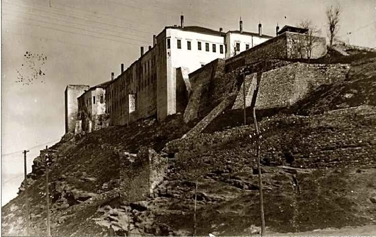 Skopje Fortress, Macedonia